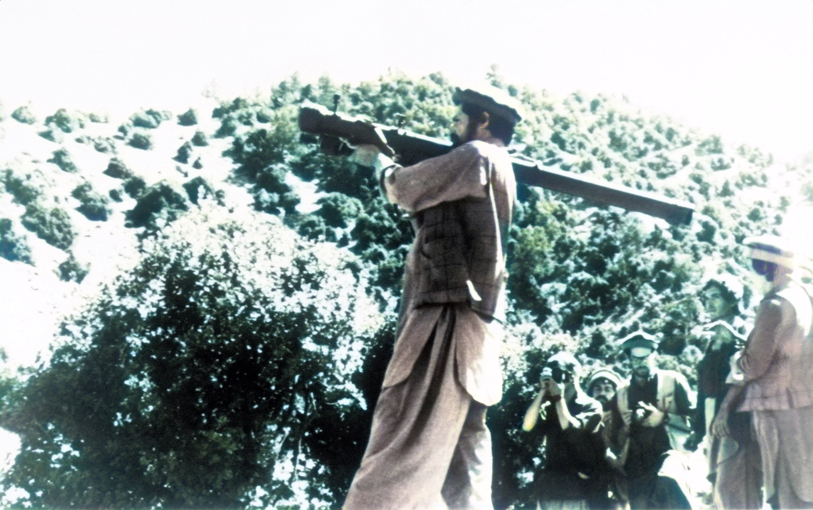 An Afghan Mujahid demonstrates positioning of a soviet-built SA-7 hand-held surface-to-air missile.